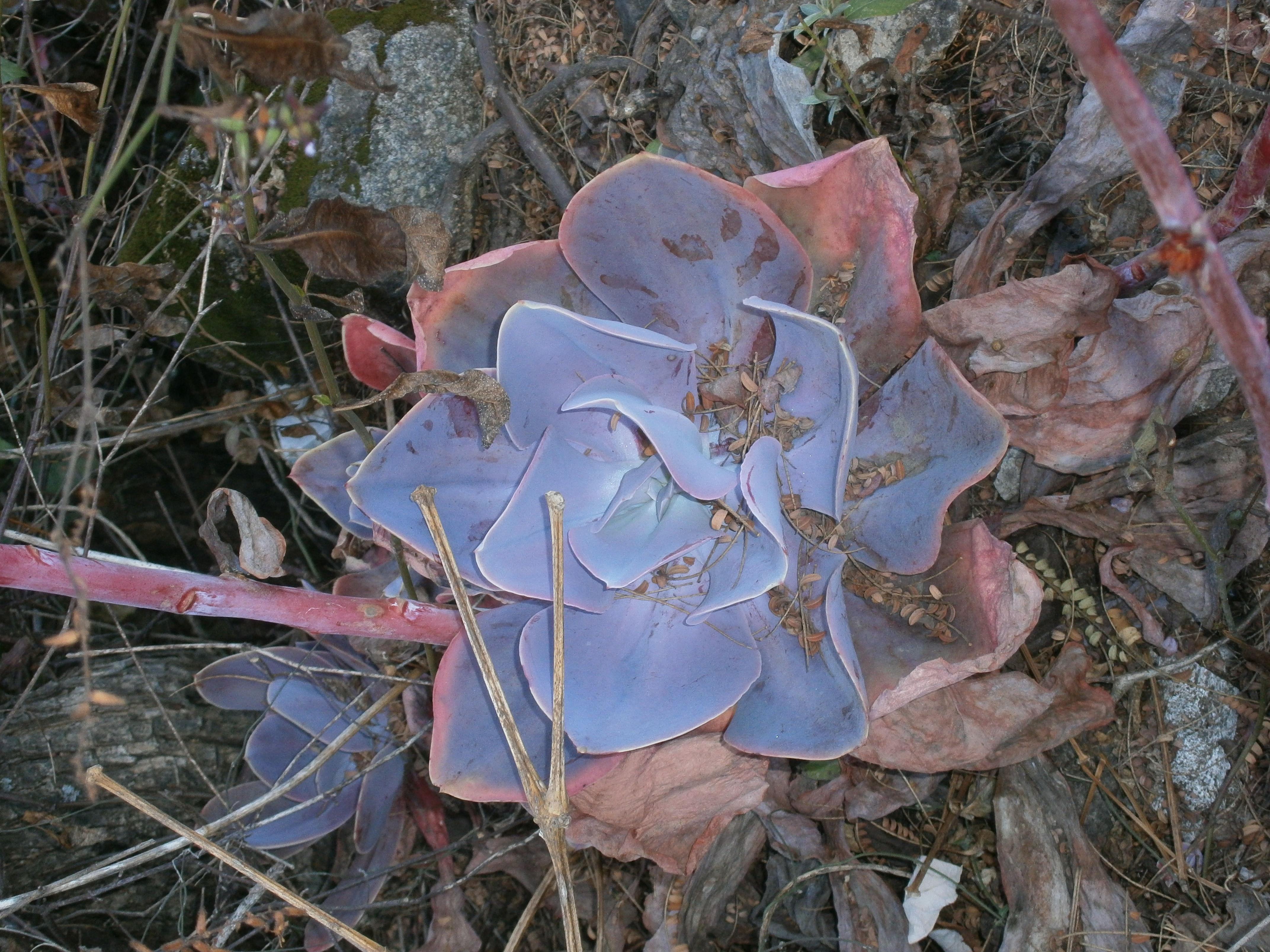 Echeveria gibbiflora